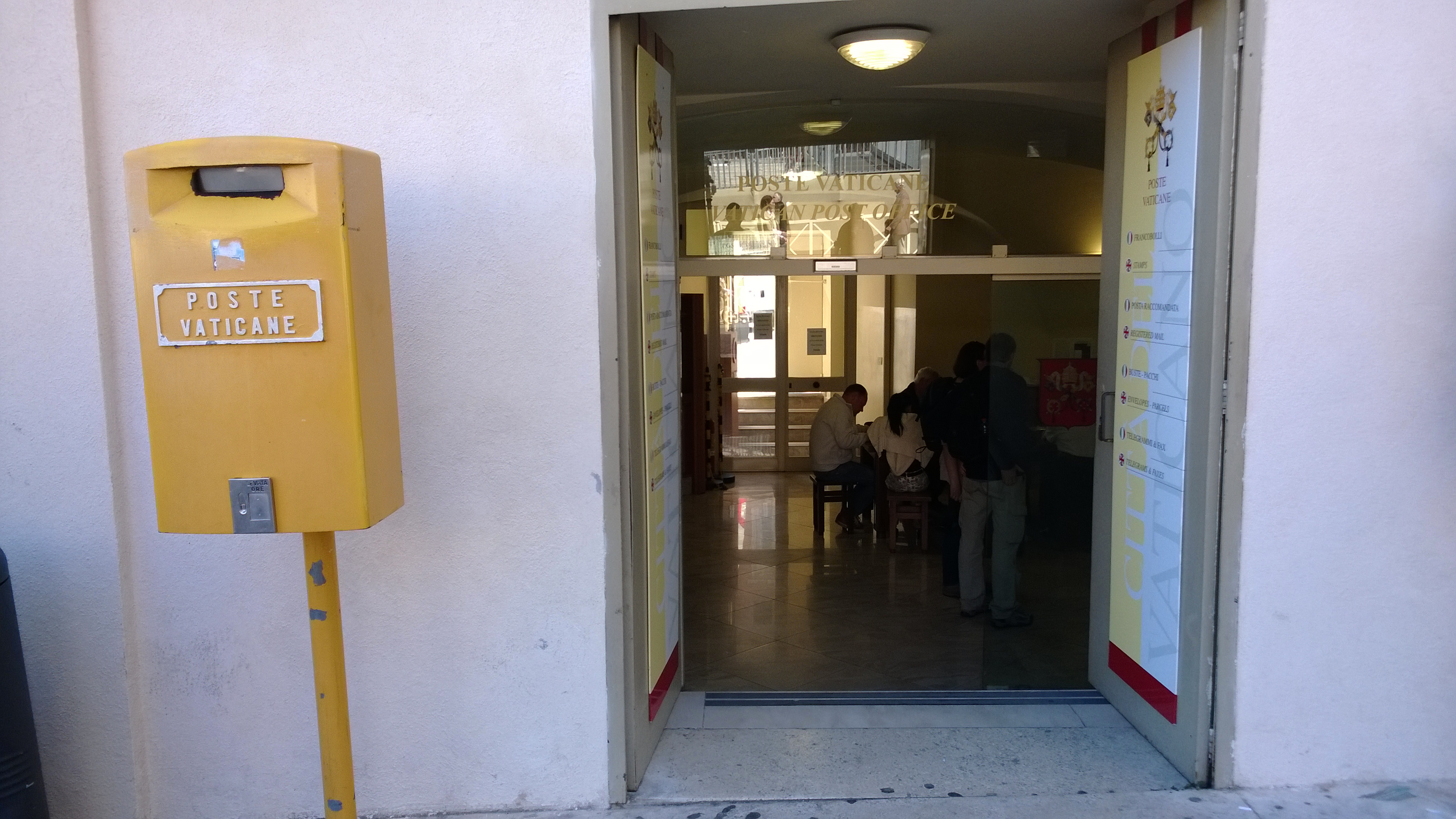 Post of Vatican City in April 2014.